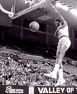 Ron Lee, 1977